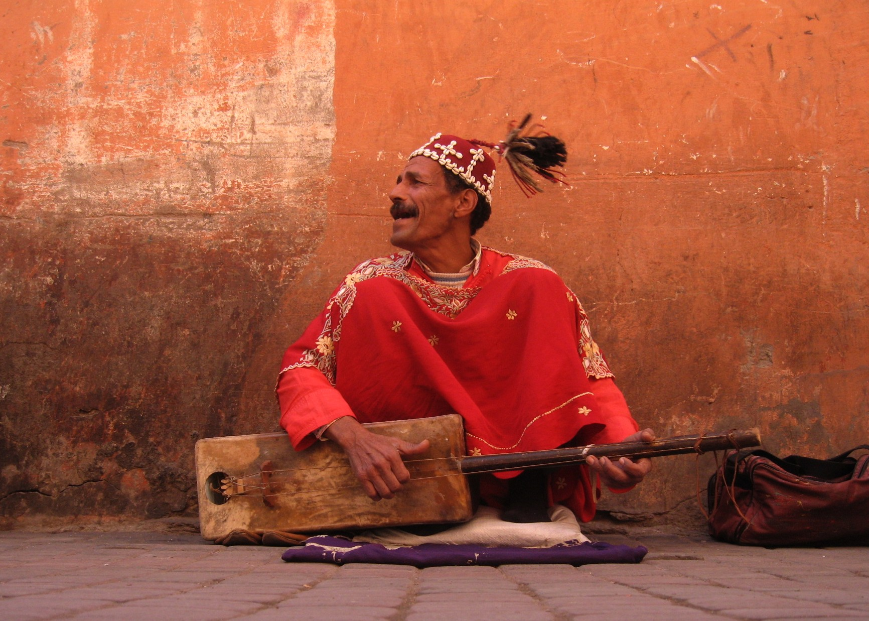 Mendicant musician playing the guimbri. It seems he has a fixed place halfway rue Riad Zitoun el Kedim. Probably he is one of those people on earth who are daily photographed in the same position on the same spot, yet still receiving alms from locals. This is an image from Morocco